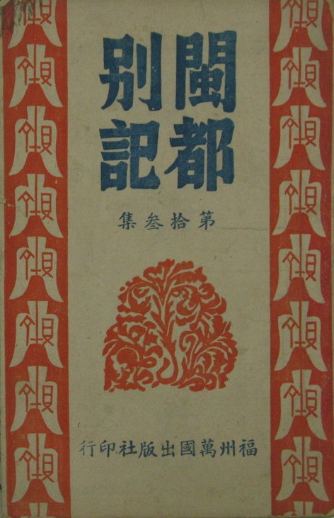 A cover of the Foochow romance of Min Du Bie Ji, published in 1946.